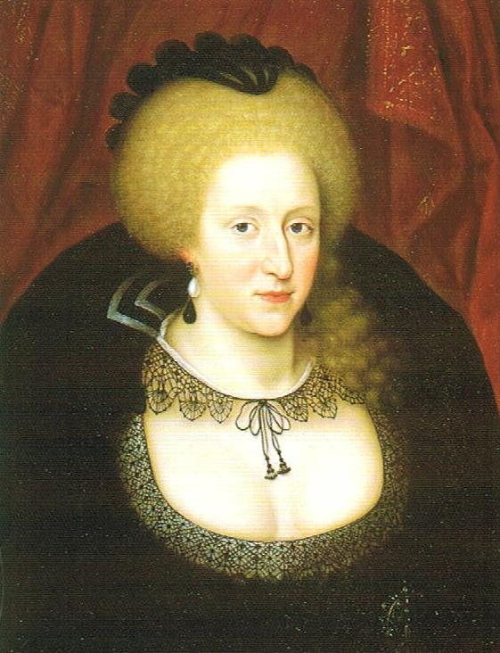 The Queen wears black, probably in mourning for her son, Henry, Prince of Wales who died in 1612.